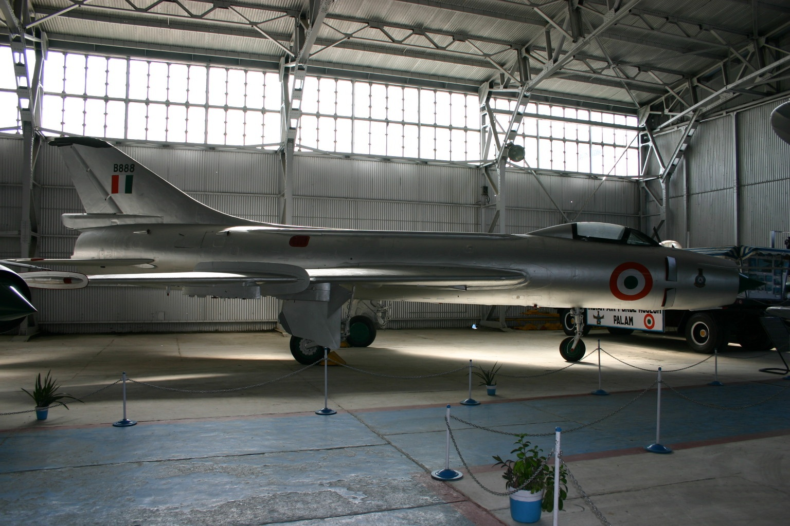 Sukhoi SU-7BMK at Indian Air Force Museum Palam